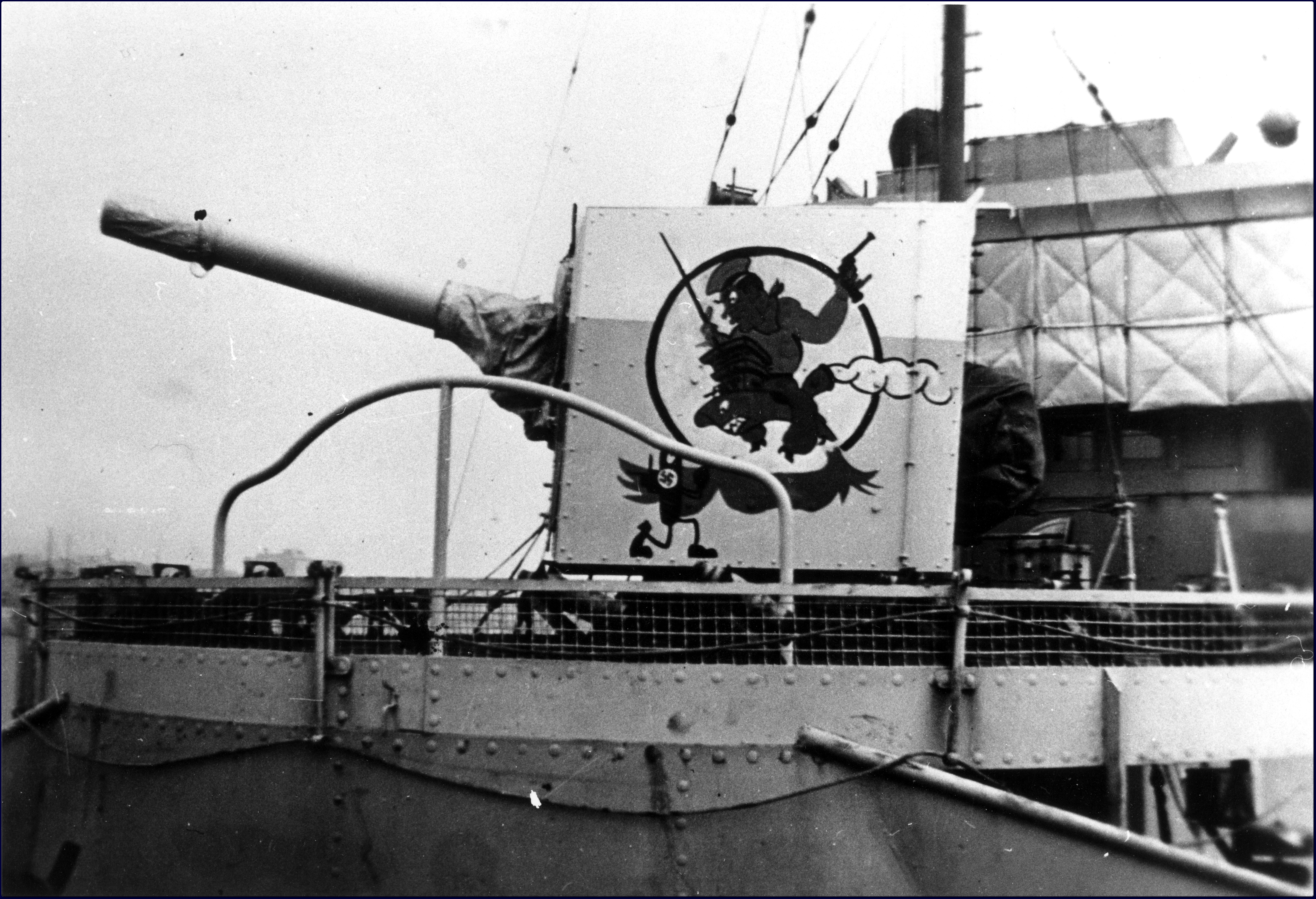 Photograph of gun shield badge on board Canadian Flower class corvette HMCS Calgary. Comment : This is a BL 4 inch Mk IX gun.